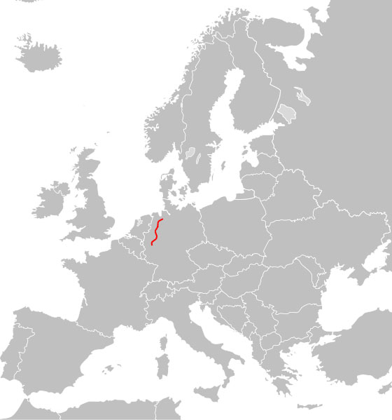 The European route 37